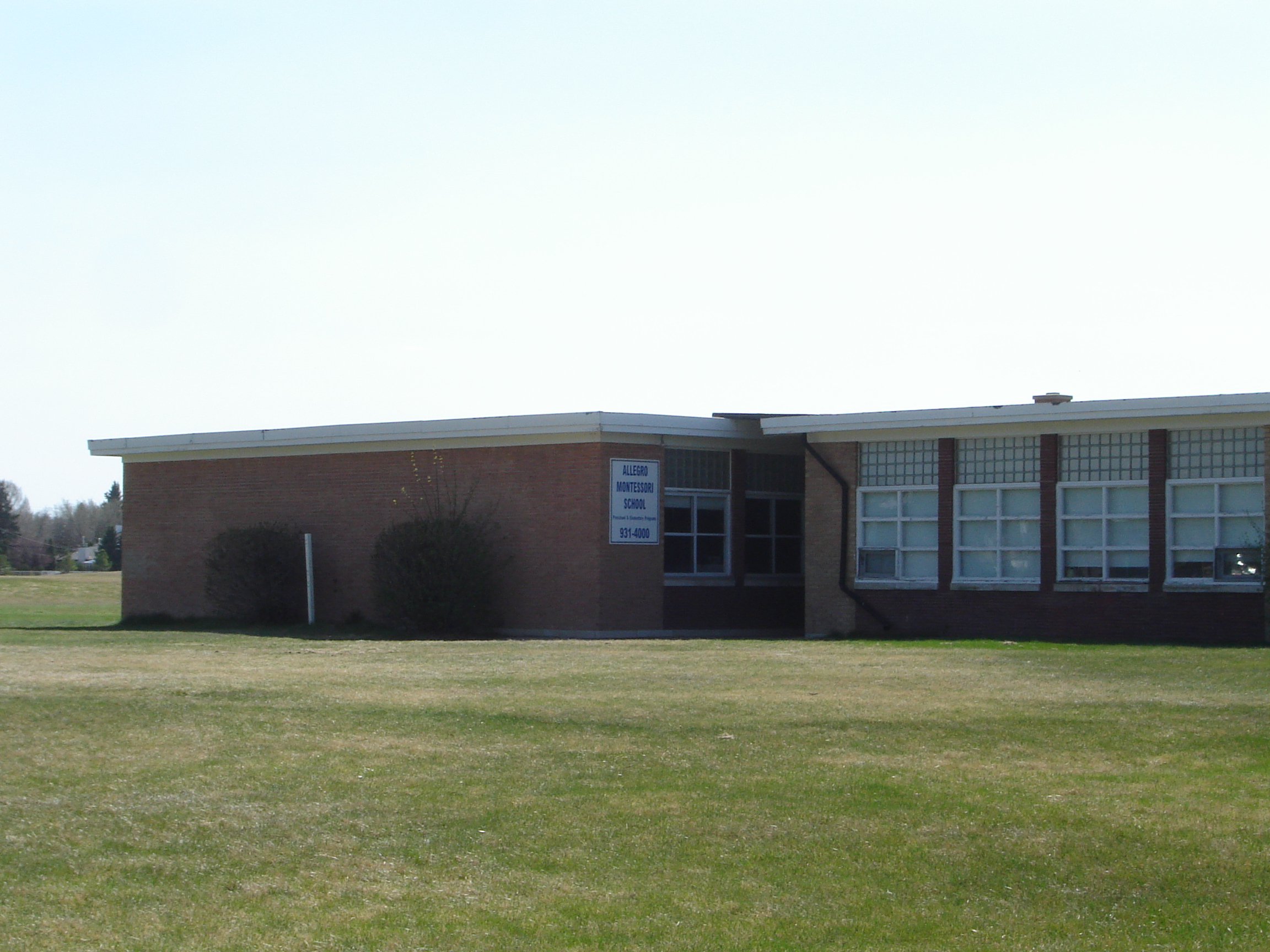 Allegro Montessori School Adelaide/Churchill, Saskatoon